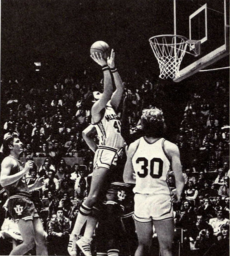 Photograph of C. J. Kupec